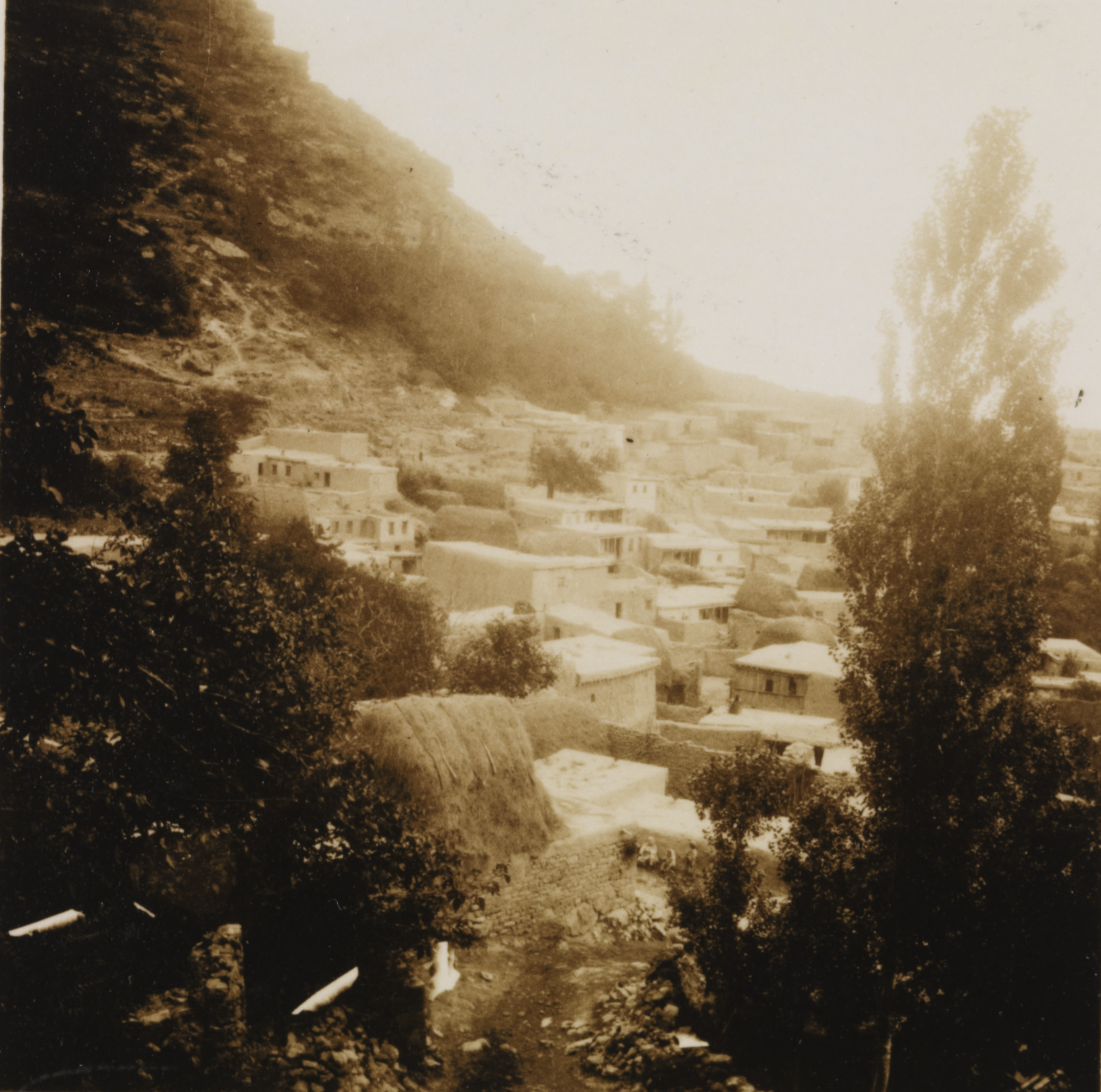 View of the city. One of the pictures from the journey through Georgia during the period July 3 to July 14, 1925. Fridtjof Nansen was invited by the president of the republic to travel around and look at the conditions in the country, so that he could give advice on the possibilities for development.